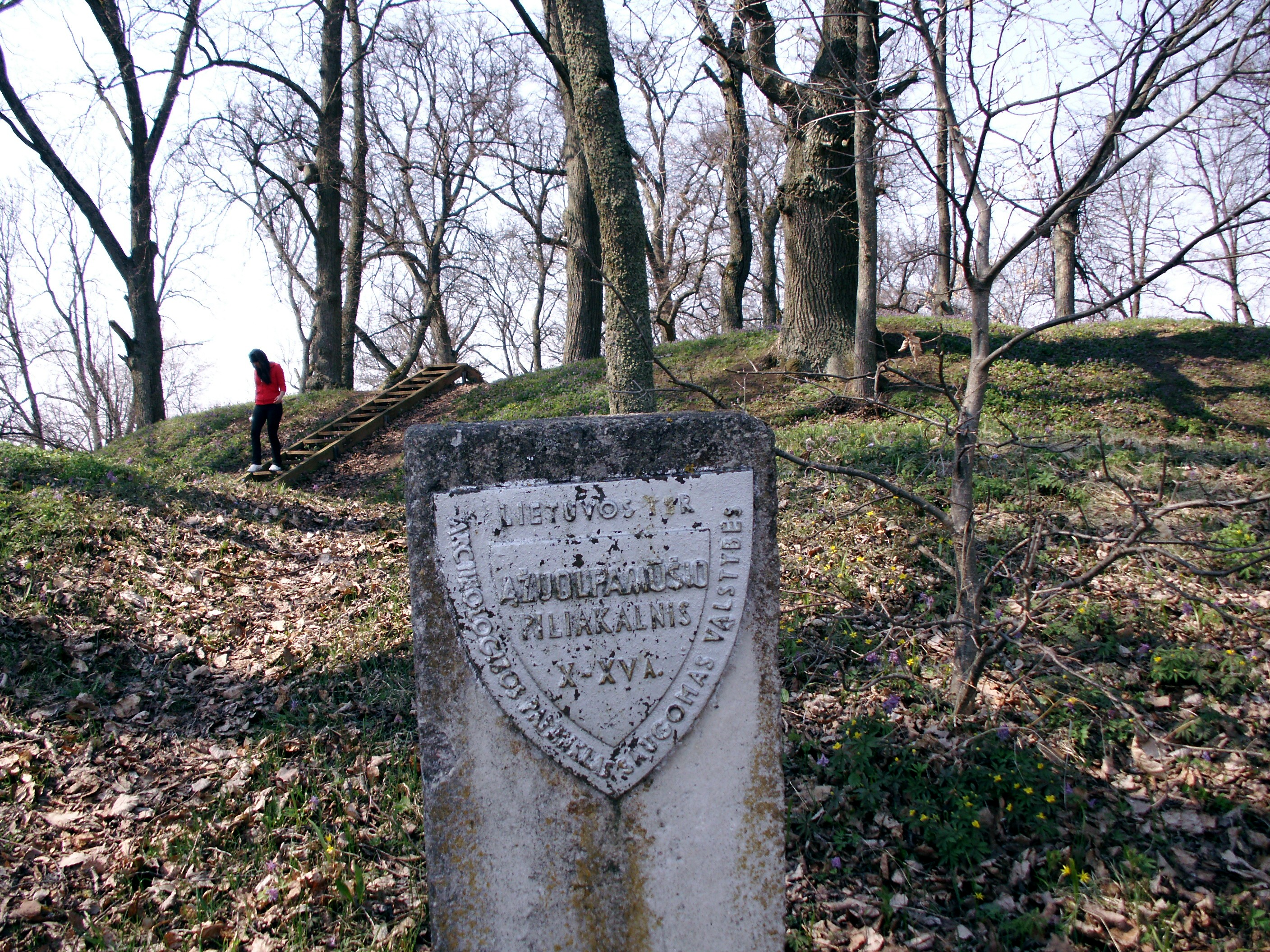 Ąžuolpamūšė hillfort, Pasvalys district, Lithuania